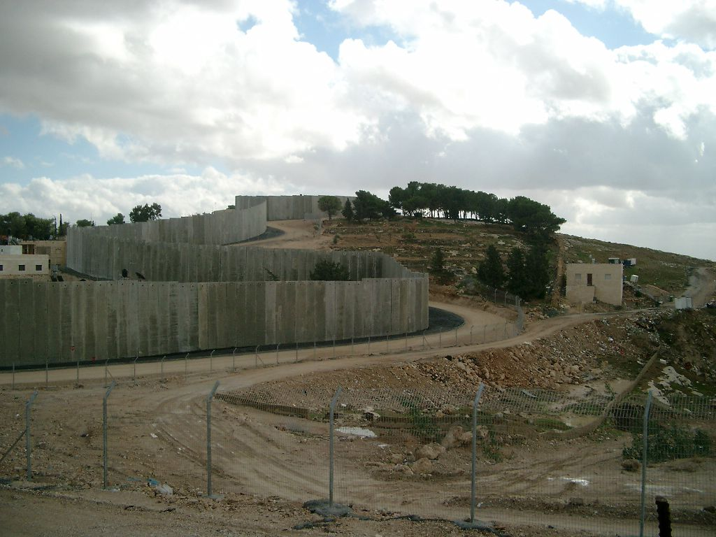 The house to the right is a small settlement, with a couple of more houses further to the right. I don't think Israel considers it a settlement though, since it's in what they decided is Jerusalem.